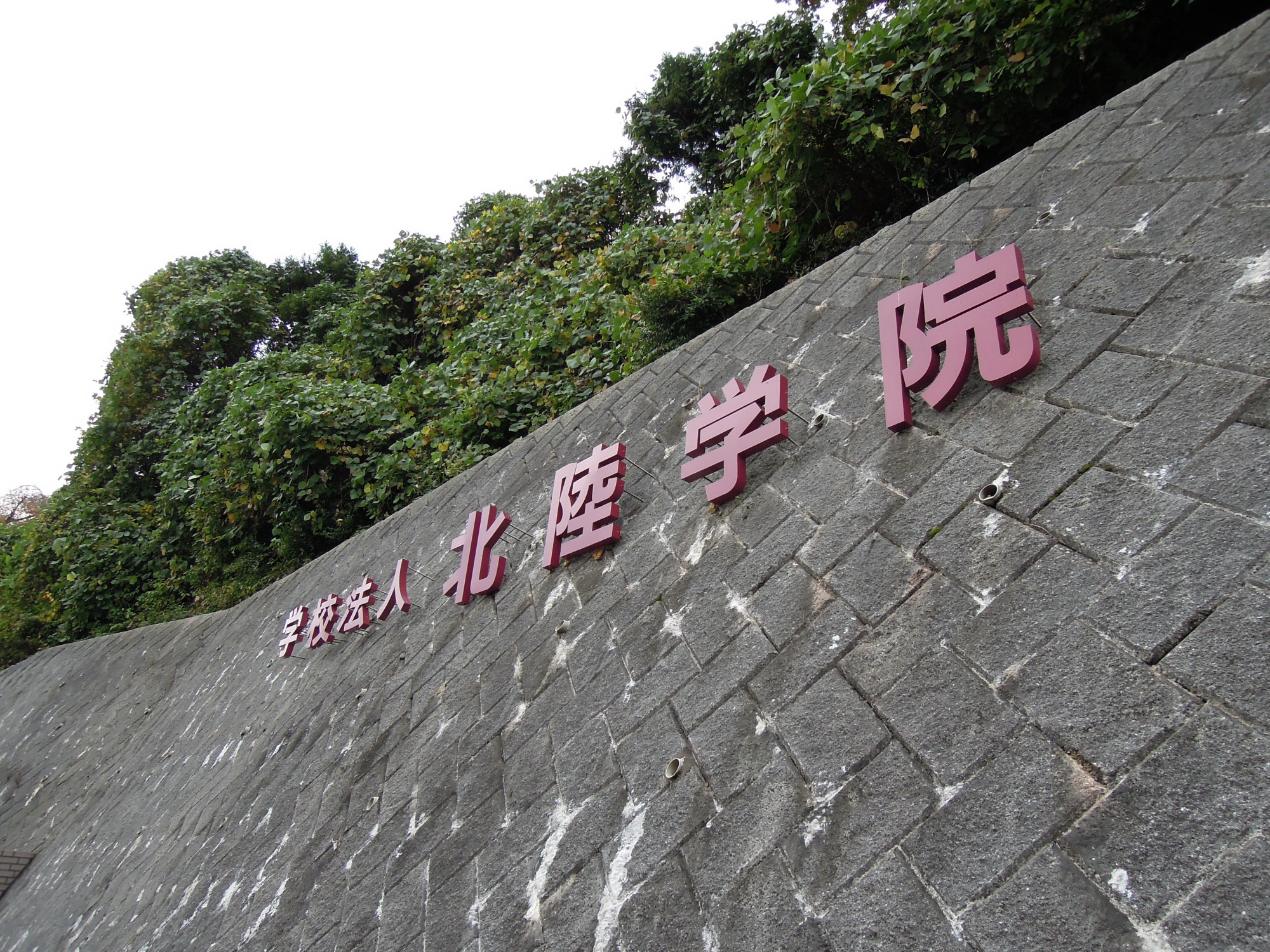 Hokuriku Gakuin, Entrance (Kanazawa, Ishikawa)